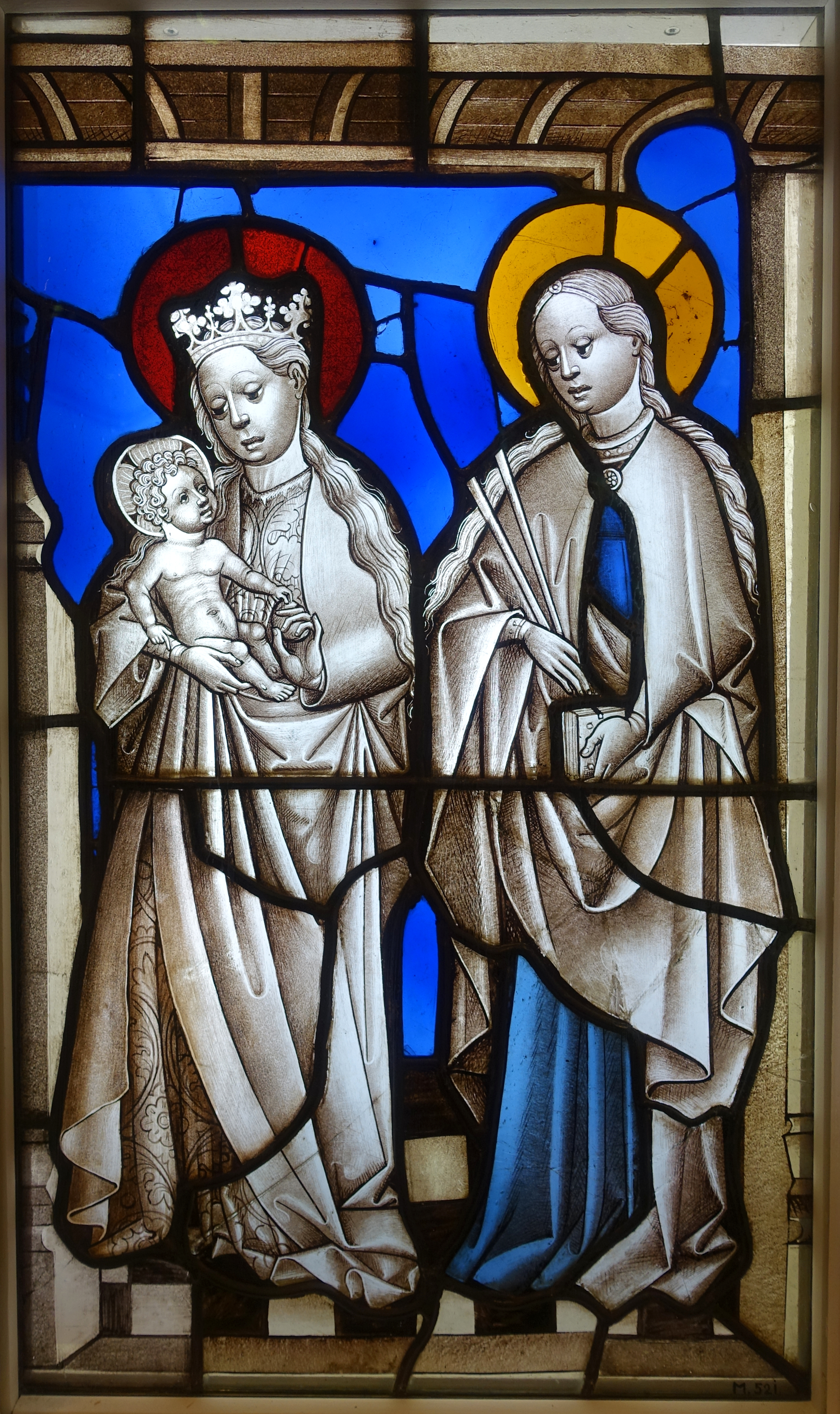 Exhibit in the Museum Schnütgen - Cologne, Germany.